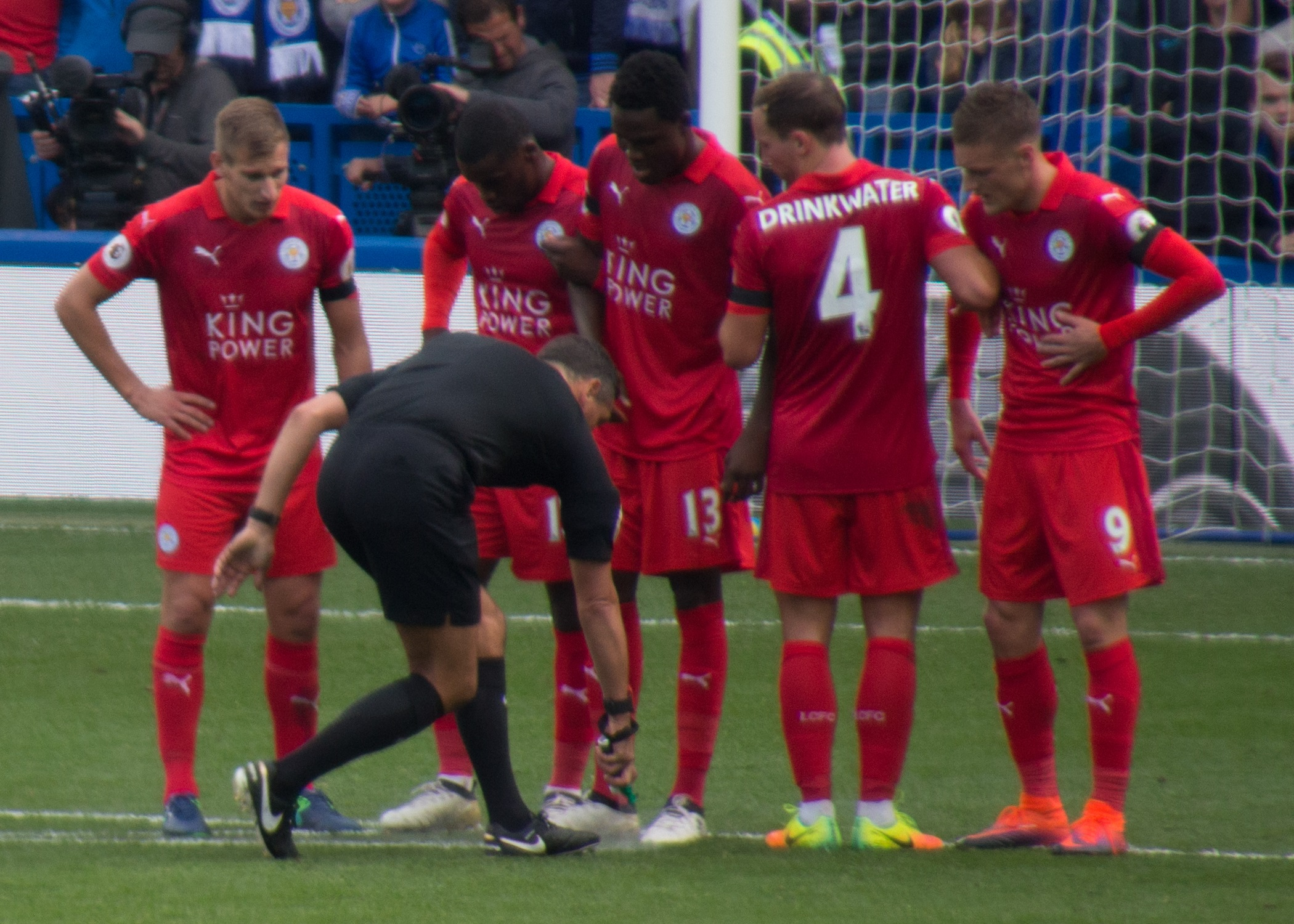 Chelsea 3 Leicester 0 15.10.16